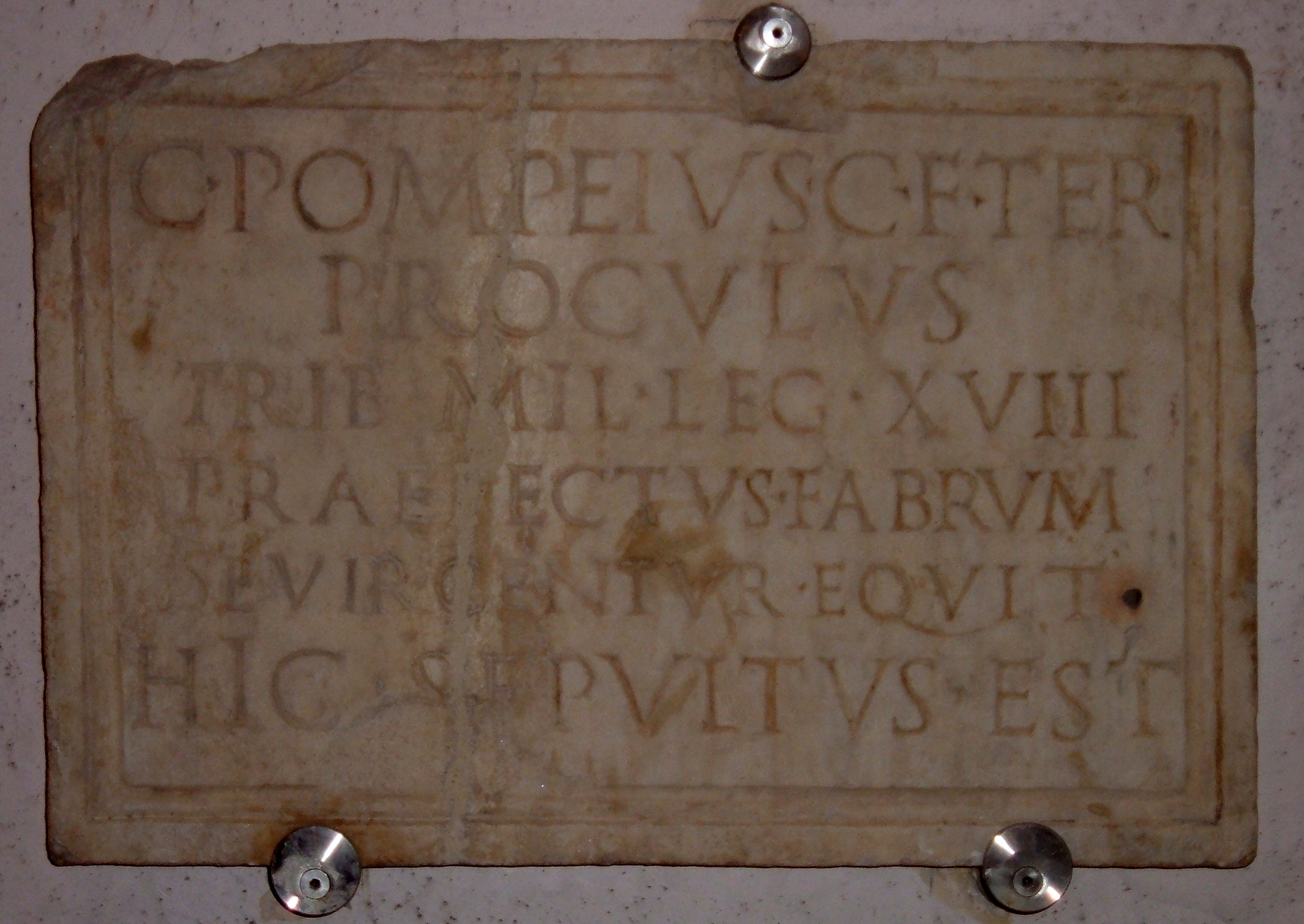 Funerary inscription for Gaius Pompeius Proculus, third son of Gaius, Tribune of the 18th legion, Praefectus Fabrum, sevir of the equestrian units, an honorary title. C POMPEIVS CF TER(tius) / PROCVLVS / TRIB(unus) MIL(ilitum) LEG(io) XVIII / PRAEFECTVS FABRUM / SEVIR CENTVR(iae) EQUIT(es) / HIC SEPVLTVS EST From the Chiesa di S. Ivo dei Brettoni, Campo Marzio, Rome. Augustean (27-14 ad.). Museo Epigrafico, Terme di Diocleziano, Rome. CIL VI, 3530